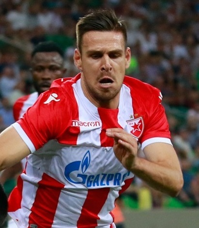 Marko Gobeljic